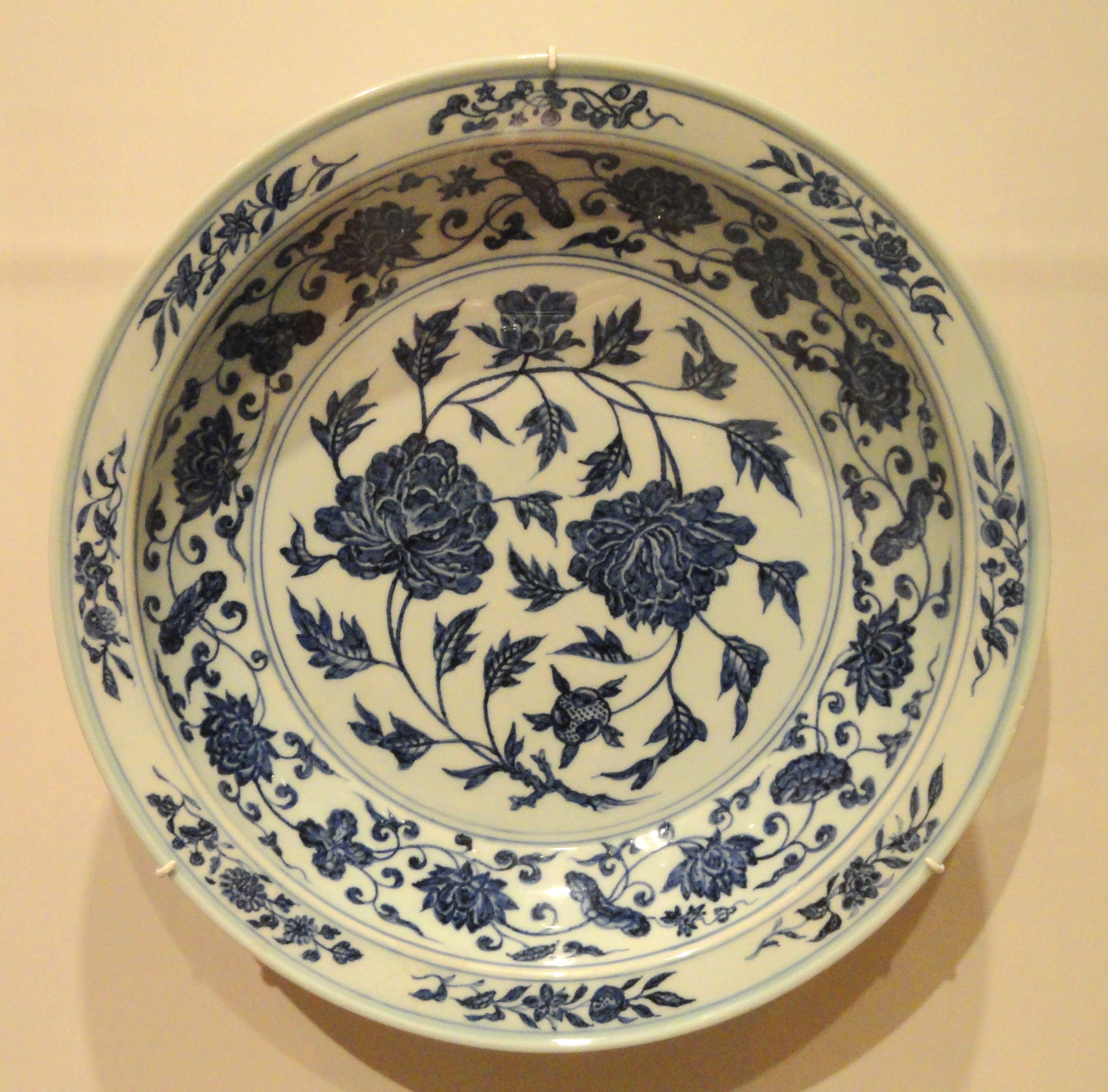 Exhibit in the Sackler Museum, Harvard University, Cambridge, Massachusetts, USA. The museum permitted photography of this artwork without restriction. This artwork is in the public domain because the artist died more than 70 years ago.